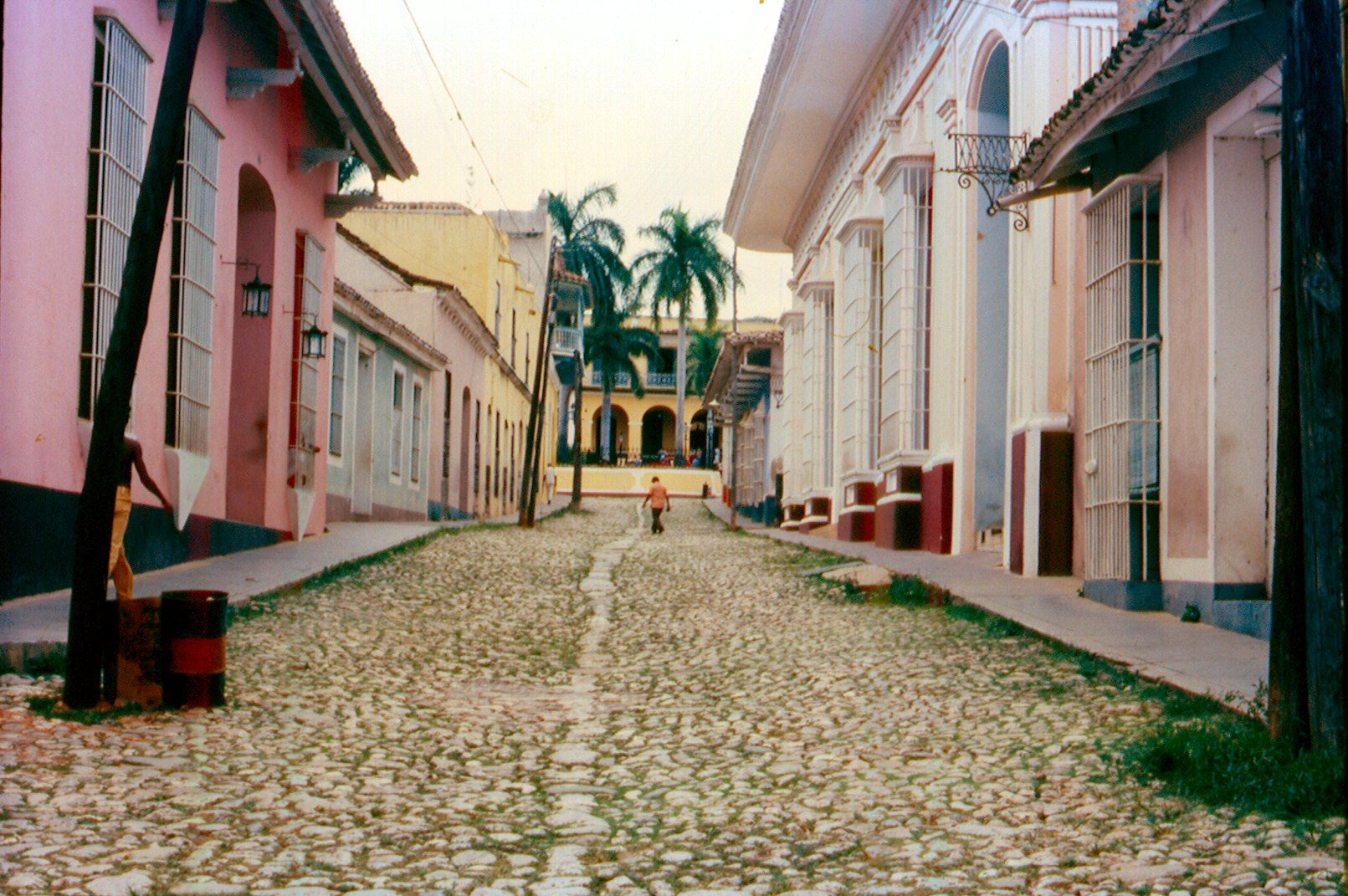 Cuba, Trinidad my photo